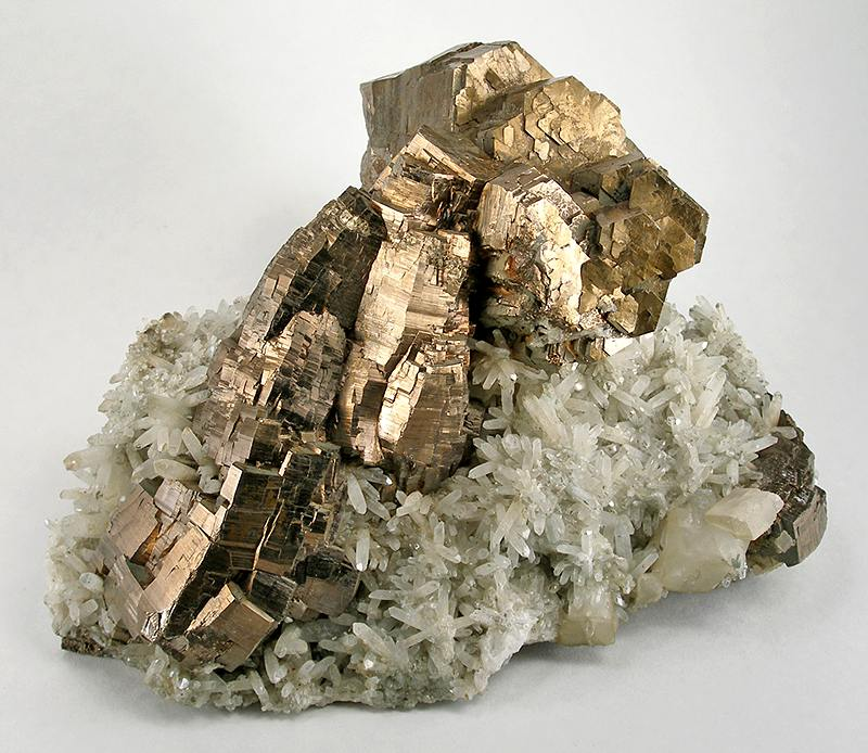 Pyrrhotite, Quartz Locality: Nikolaevskiy Mine, Dal'negorsk (Dalnegorsk; Tetyukhe; Tjetjuche; Tetjuche), Primorskiy Kray, Far-Eastern Region, Russia (Locality at ) Size: large cabinet, 18.6 x 14.3 x 12.3 cm Pyrrhotite on Quartz This incredible large specimen is the finest large pyrrho I have seen since handling the well-known "Freilich specimen," from Sotheby's, in 2001. That piece was bigger, but this one is more elegant and significant because of the larger size of the pyrrhotite clusters. And I have seen a lot of them! The piece has stark , 3-dimensional clusters leaping off of crystallized quartz matrix. Despite the massiveness of the pyrrhotite clusters, their bright brassy color and curving form give them an elegance that a similarly sized galena or sphalerite would not have. the piece looks almost biological, with "snakes" of golden pyrrhotite "climbing" up the matrix to jump off the top like lemmings. The specimen is complete on all sides but the back, where it is naturally contacted. It was mined in 1996, I am told. On the whole specimen, there are just a few small spots of edge wear and thats it. It is nearly pristine, remarkable given the size and composition. Here is a world class example of the species, at a frankly bargain price. But, I got it cheaply, myself, so....